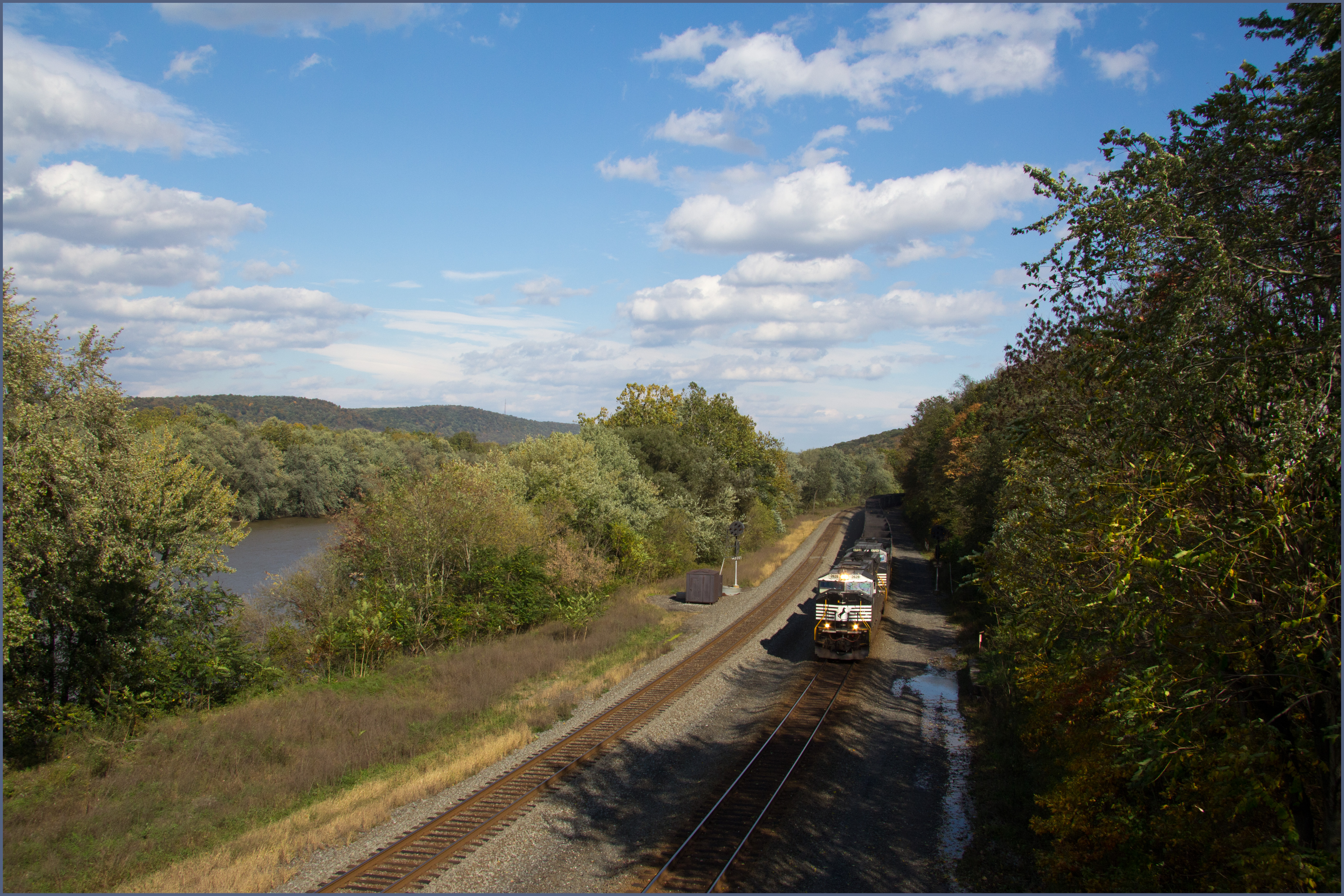 The former PRR Middle Division (now part of the NS Pittsburgh Line) closely parallels the Juniata River (a bit of the river can be seen on the left side of this photo) taken from the PA Rt. 333 bridge. Both tracks are signaled for travel in either direction.